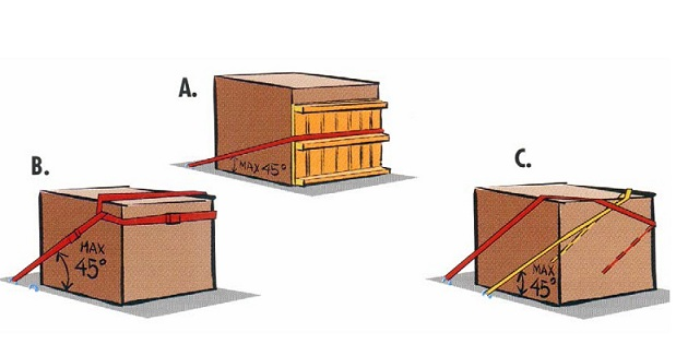 spring lashing